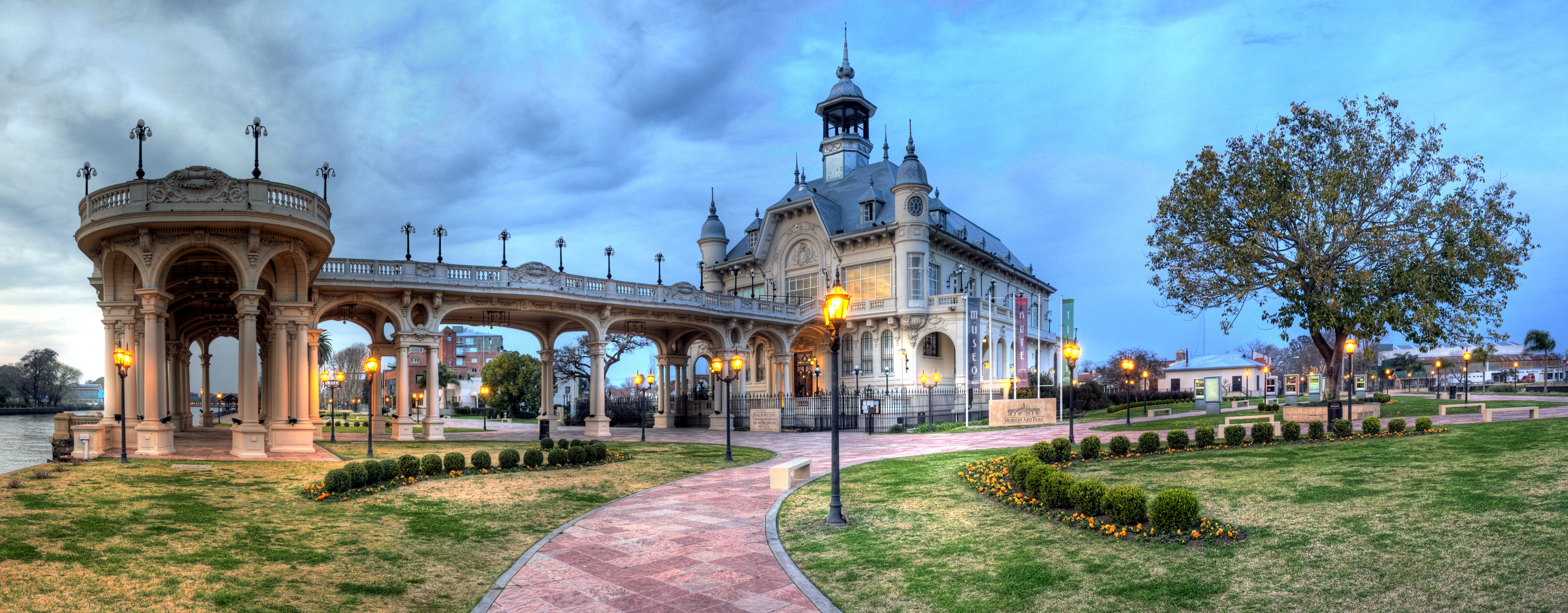 Formerly a hotel, now converted to Art Museum.